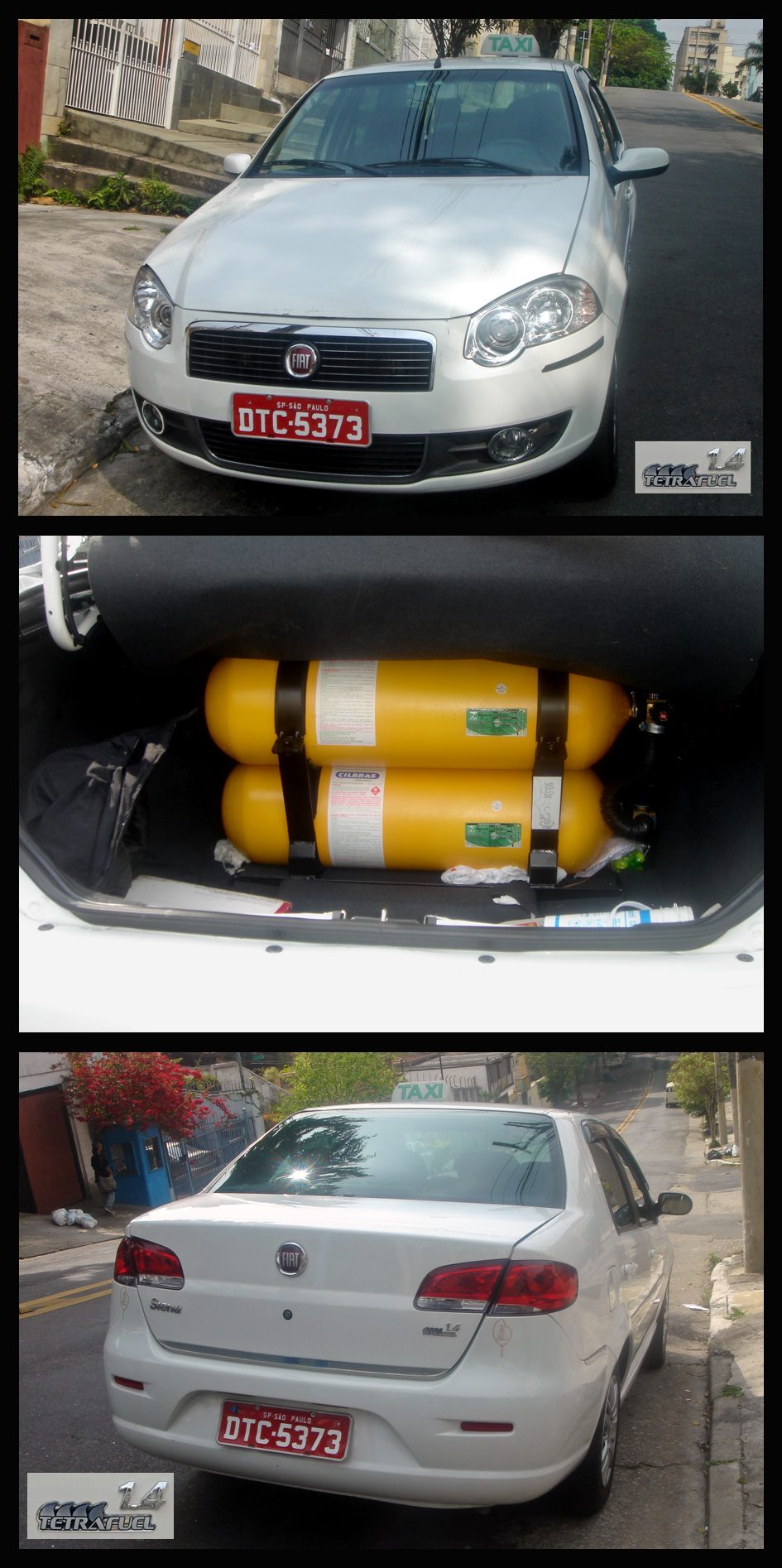 Pictures taken at Sao Paulo, Brazil, the collage showing three views (frontal, rear and the GNC tanks in the trunk) of the first TetraFuel model than runs on pure gasoline, E20-E25 Brazilian gasohol, E100 ethanol or CNG.